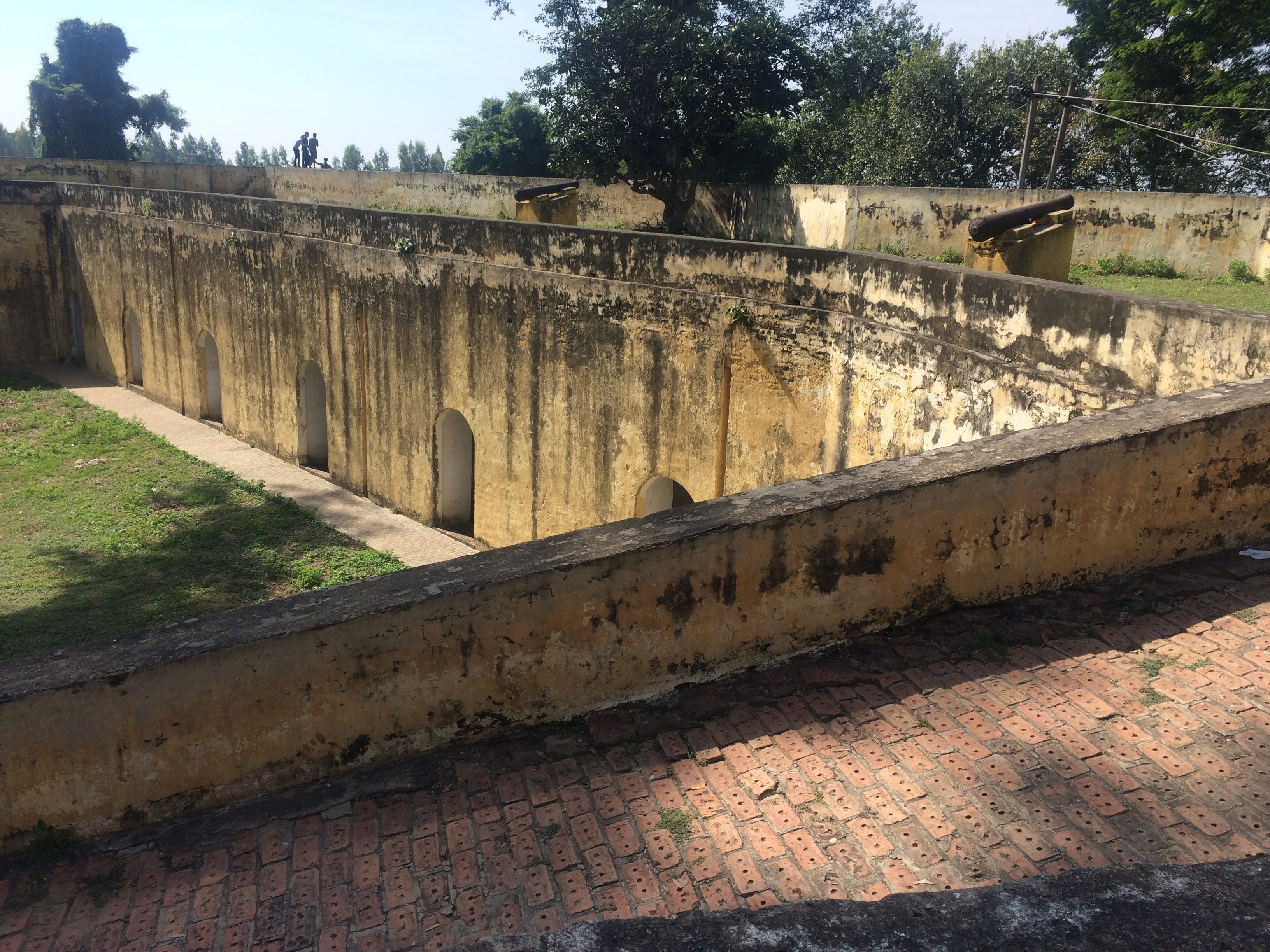 Thapyaytan Fortress near Ava Bridge မြန်မာဘာသာ: အင်းဝတံတားအနီးရှိ သပြေတန်းခံတပ်